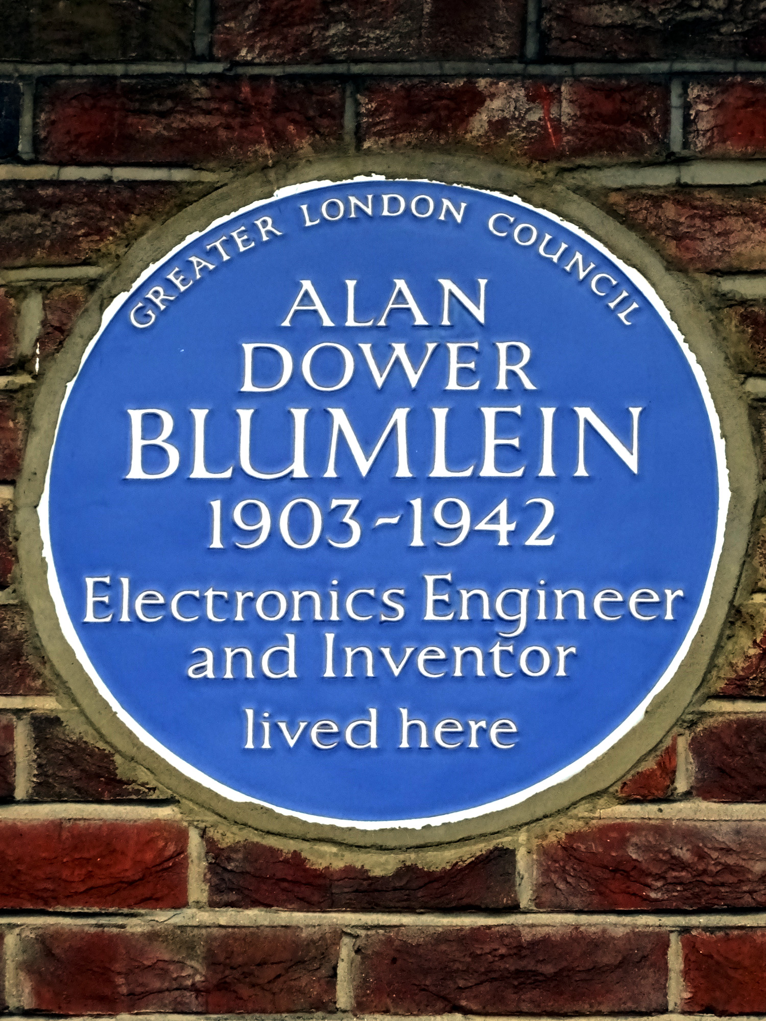 Blue plaque erected in 1977 by Greater London Council at 37 The Ridings, Hanger Hill, London W5 3BT, London Borough of Ealing